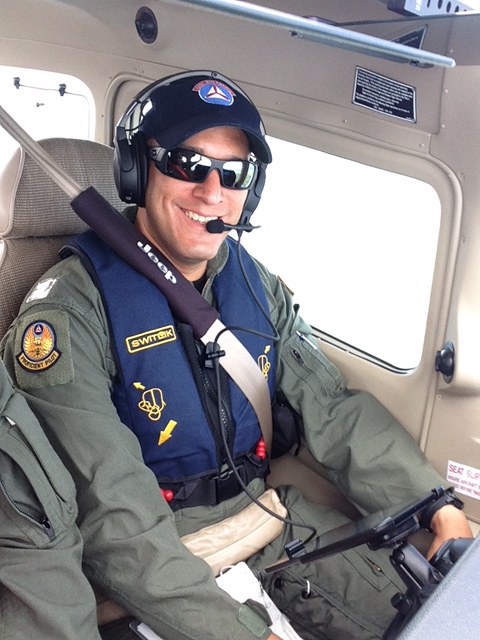 U.S. Air Force Capt. Luis Aponte, 455th Expeditionary Communication Squadron operations officer, flies a Cessna 187 while on a Civil Air Patrol Mission. Aponte has been a member of the CAP in Puerto Rico for three years as well as the former director of operations for his CAP unit. (Courtesy Photo)